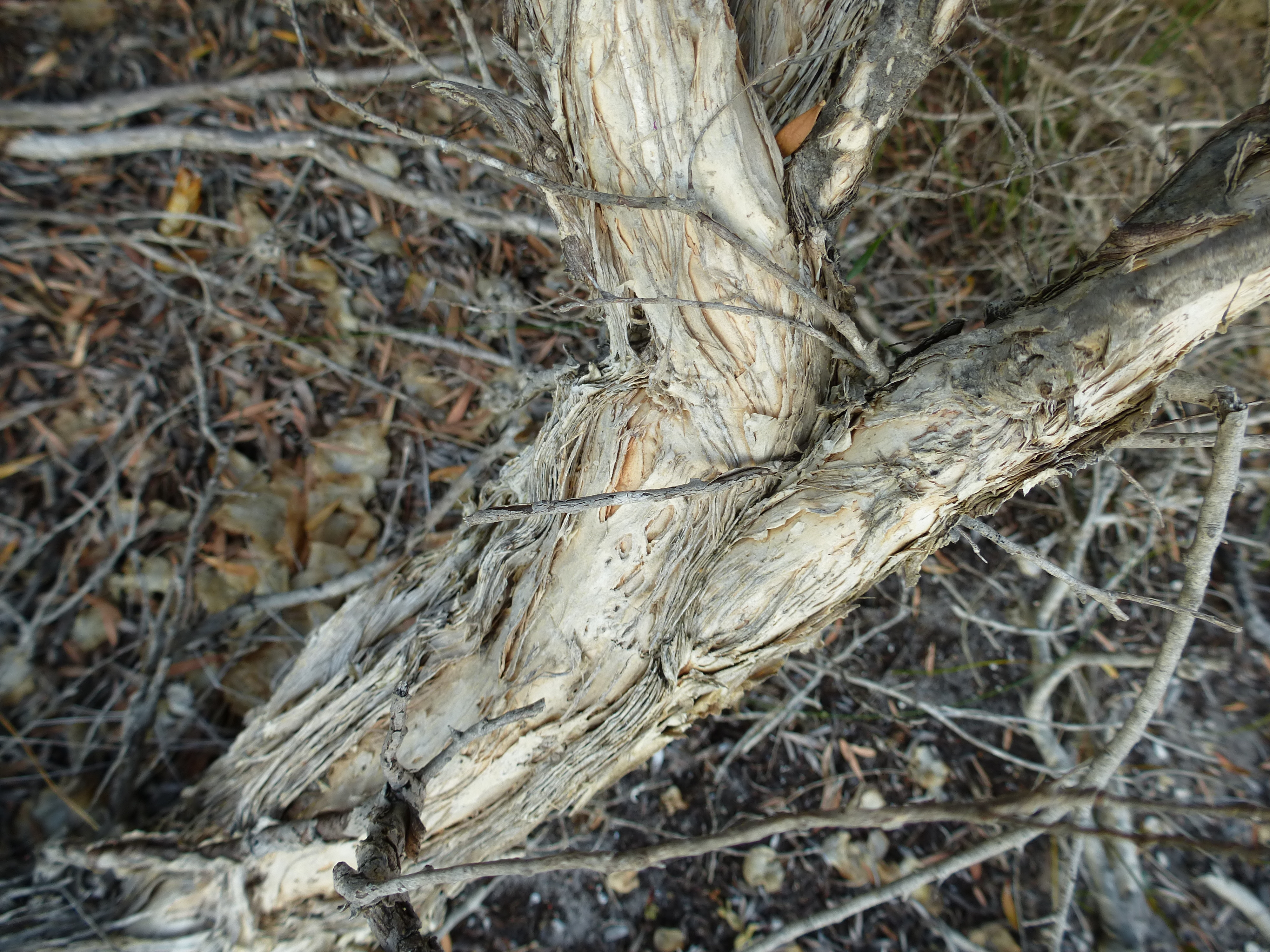 Melaleuca pentagona growing in the Esperance wetlands area